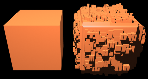 A cube and its greebled version. Rendered by Gargaj / Conspiracy.